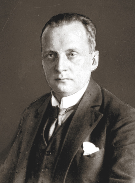 Piotr Dunin-Borkowski Polish politician, political writer and civil servant of Second Polish Republic